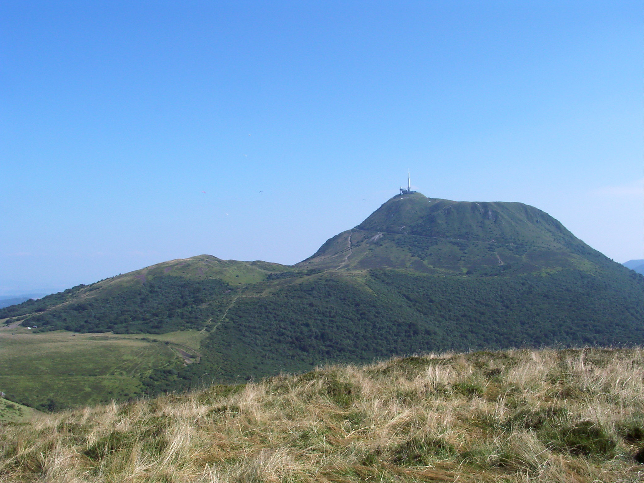 Summer view of the puy de Dôme Location: puy de Dôme, Auvergne, Central Massive, France Taken from: Le Grand Suchet